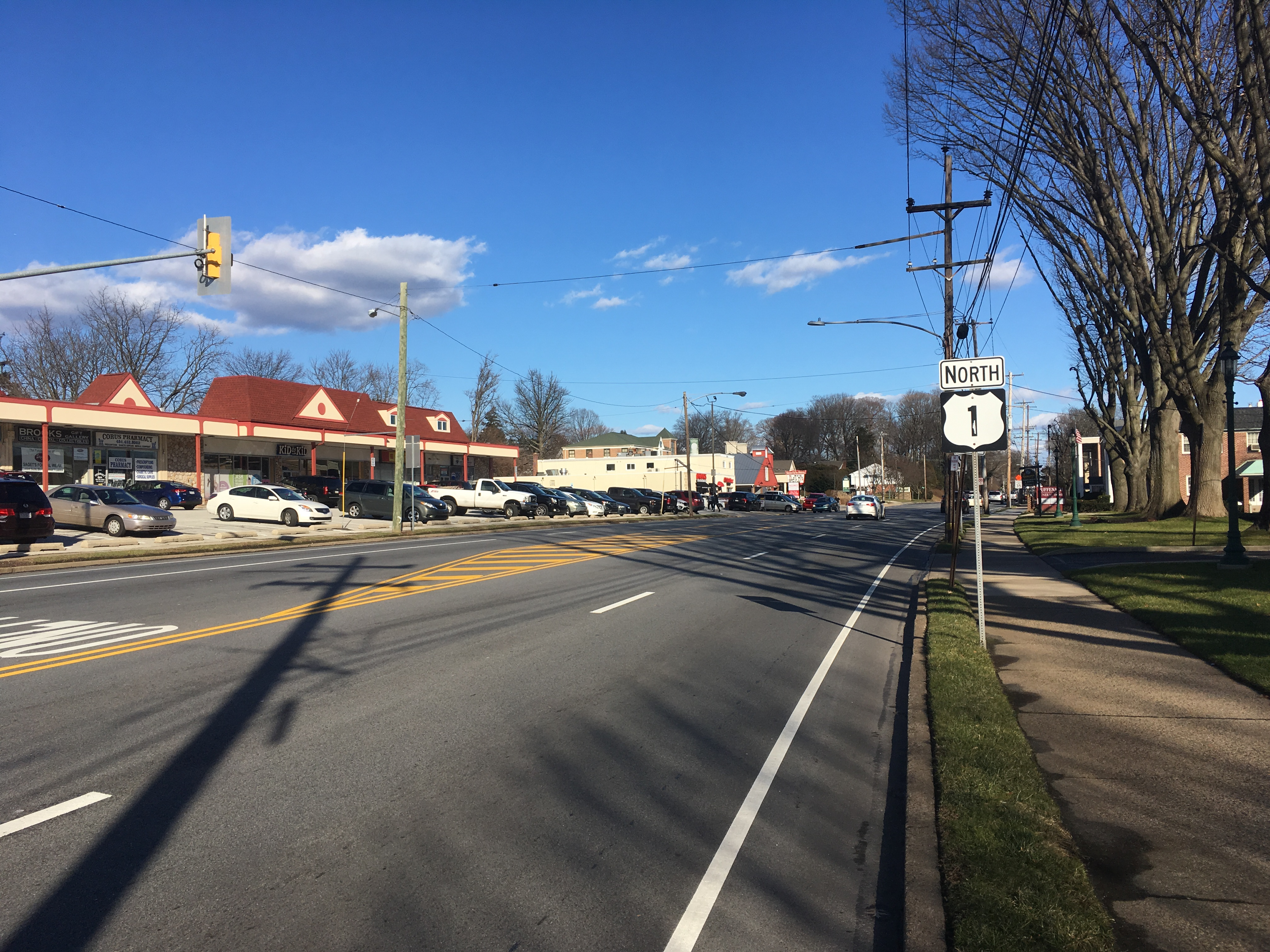 Northbound U.S. Route 1 (Township Line Road) past the intersection with Burmont Road in Drexel Hill, Pennsylvania